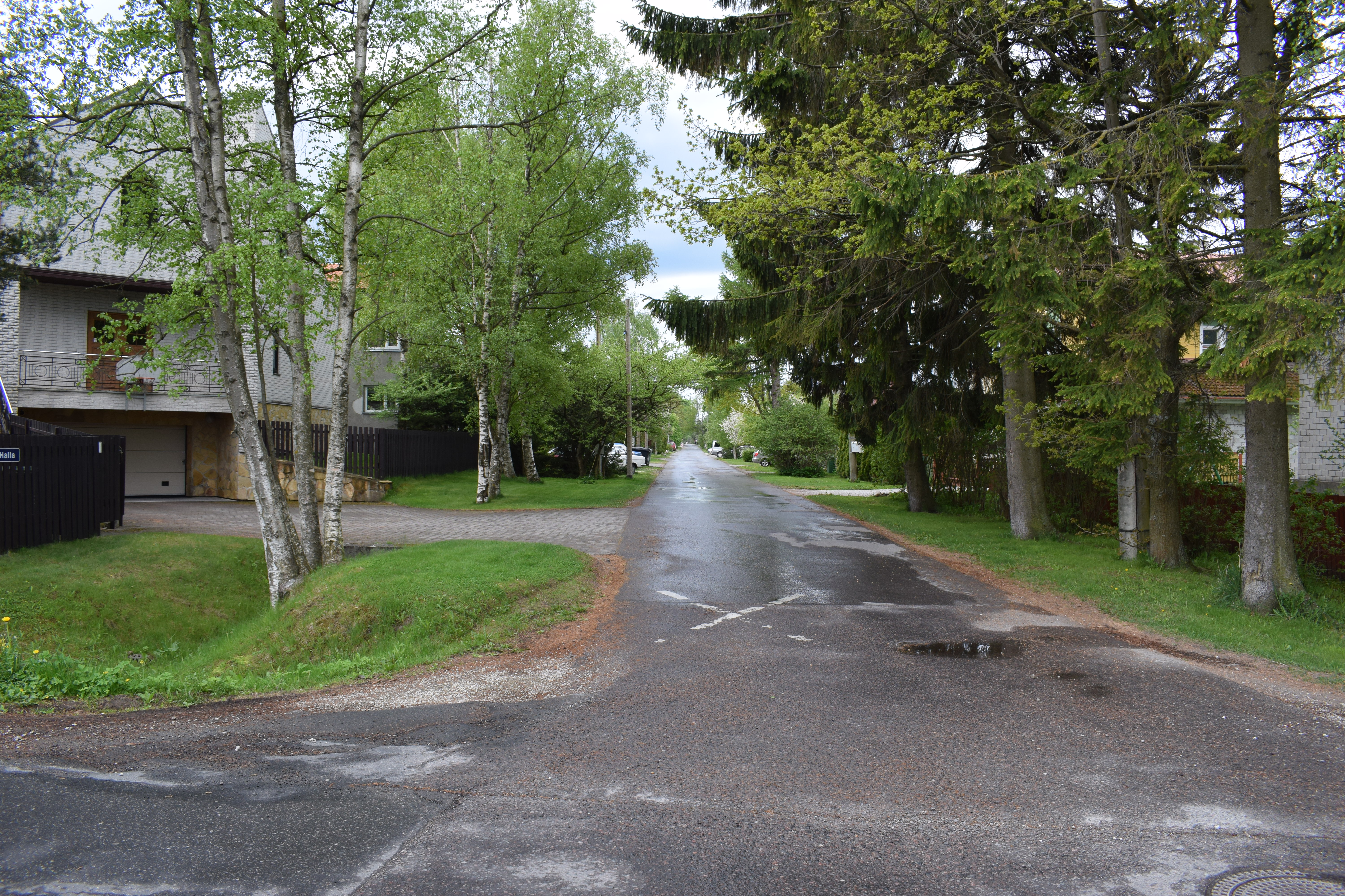 Halla tänav